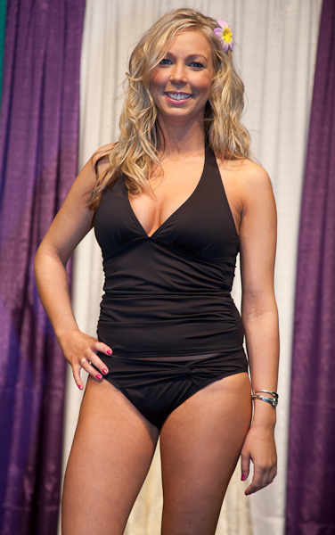 Every year there is a Women's Show in Anchorge, Alaska - it's a cool event to attend, even as a guy. The Women's Show included various fashion shows - this photo shows clothing on sale at Run to the Sun - a local beachwear, swimsuit, outdoor clothing, and also a tanning salon. The models are very nice but the lighting at the arena is ugly and it gives me problems all the time. Please ignore the lighting and enjoy the models! I took this photo in September 2011 at the Sullivan Arena in Anchorage, Alaska.